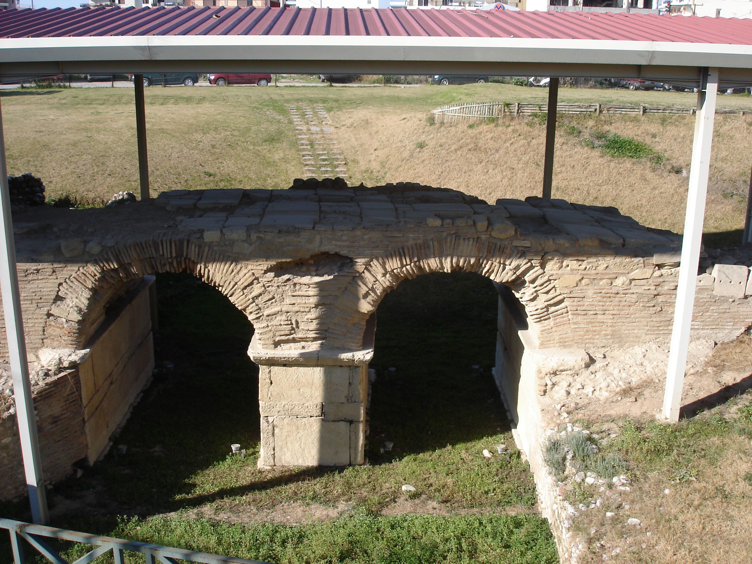 Roman Brige Meilixos Patra Greece